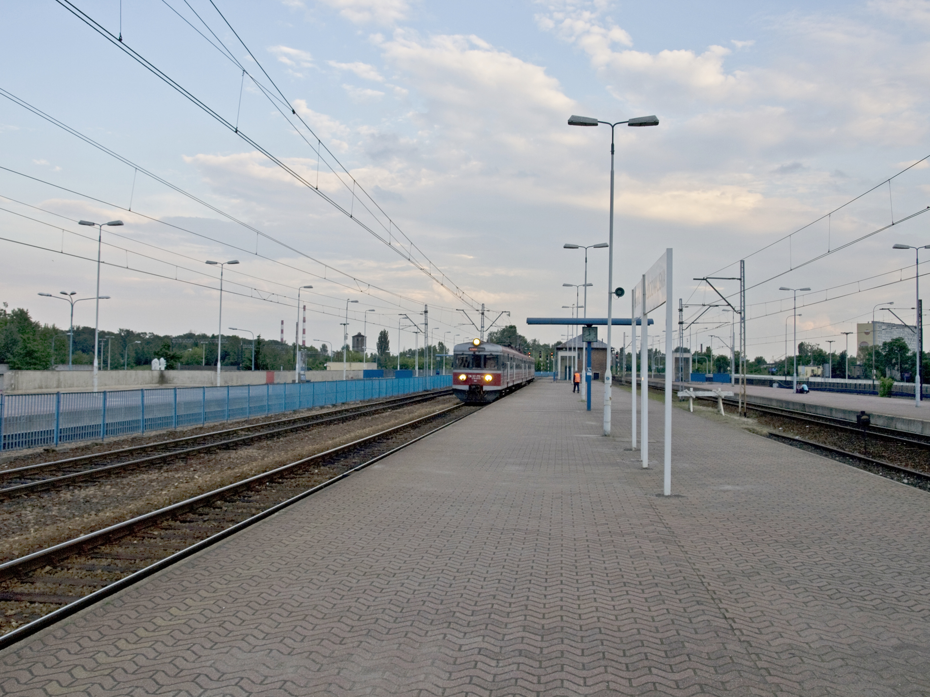 A suburban train at the Łódź Kaliska railway station from the south.